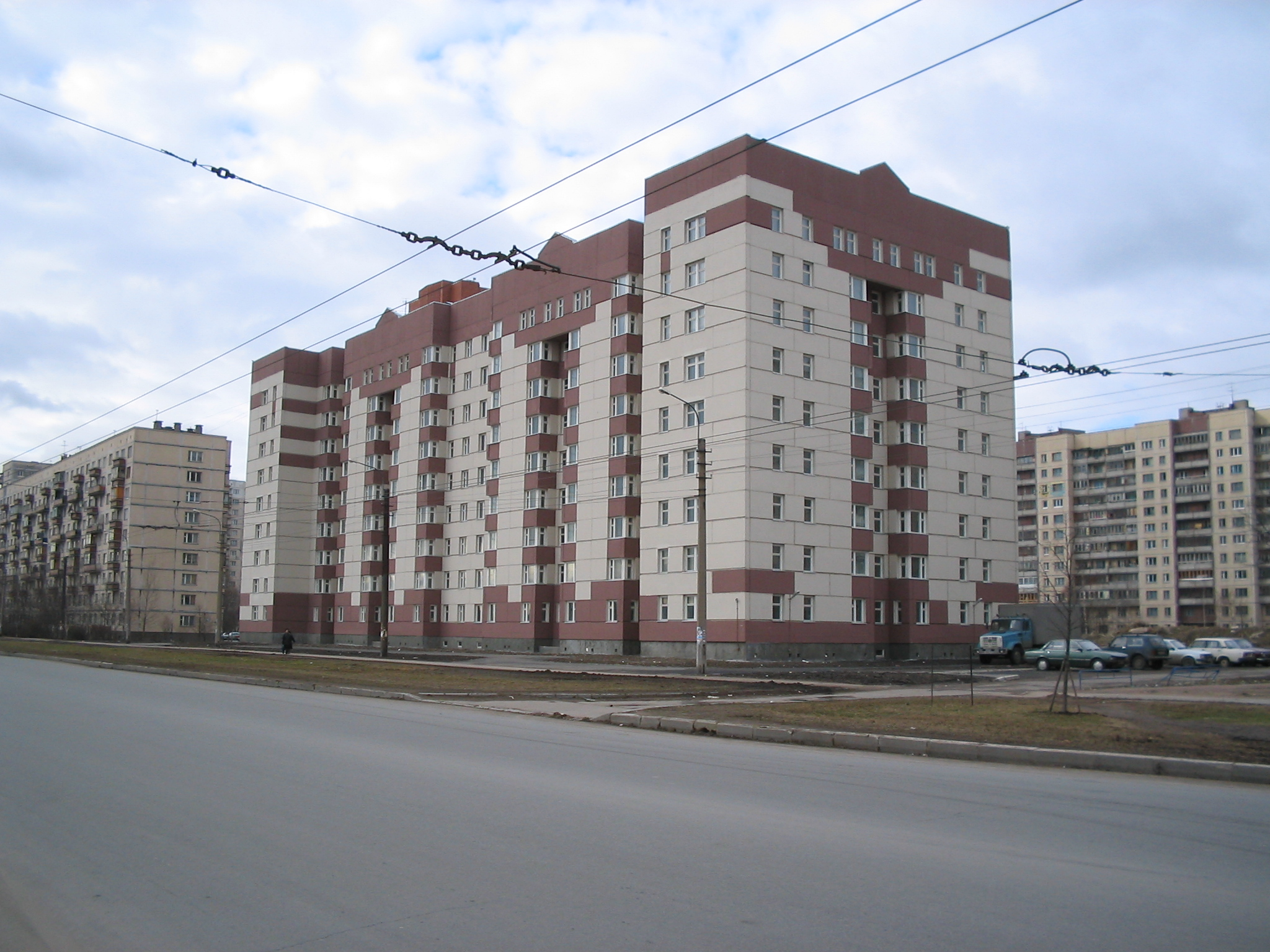 22 Khasanskaya St St. Petersburg